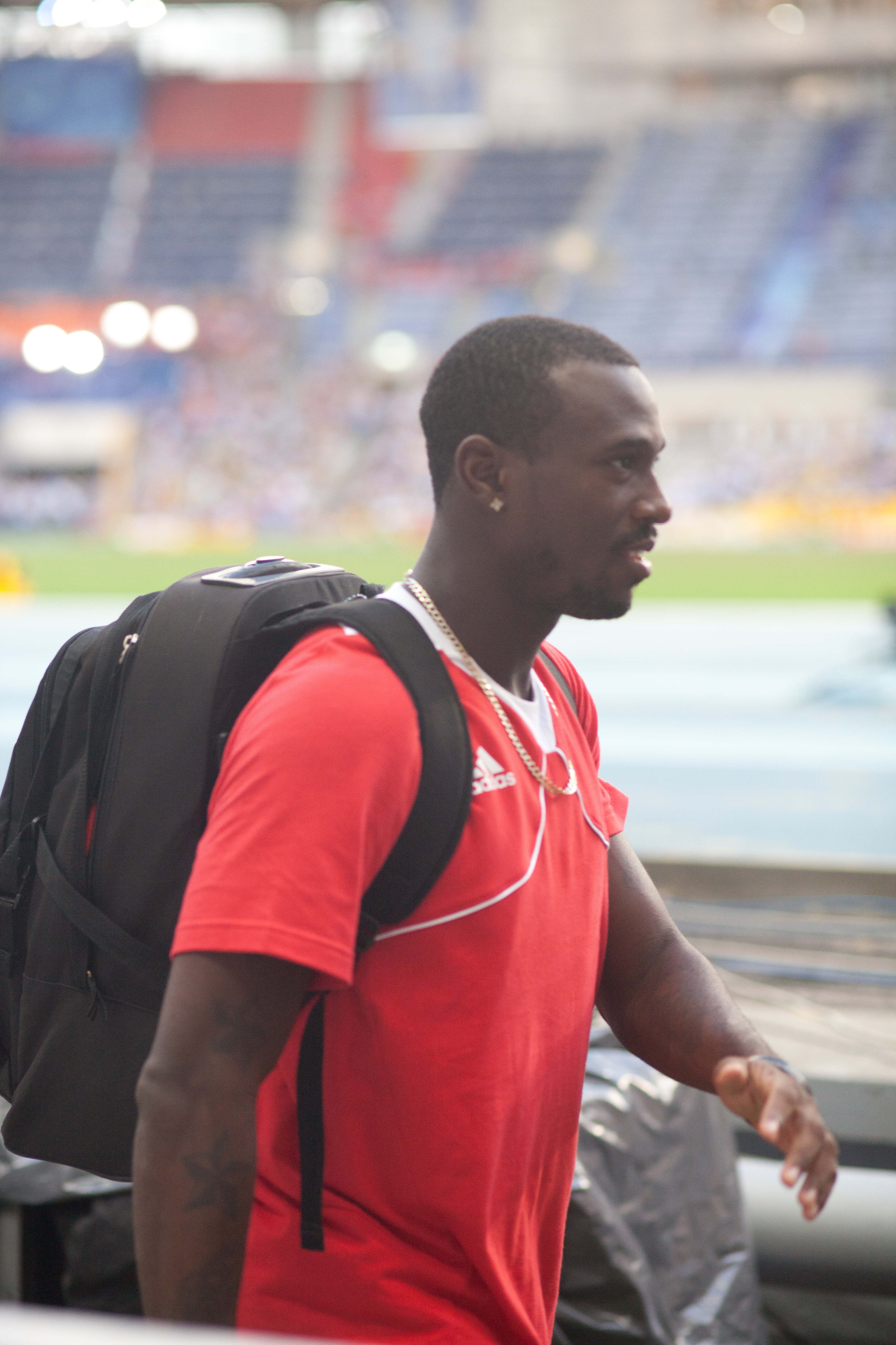 Daniel Bailey during 2013 World Championships in Athletics in Moscow.